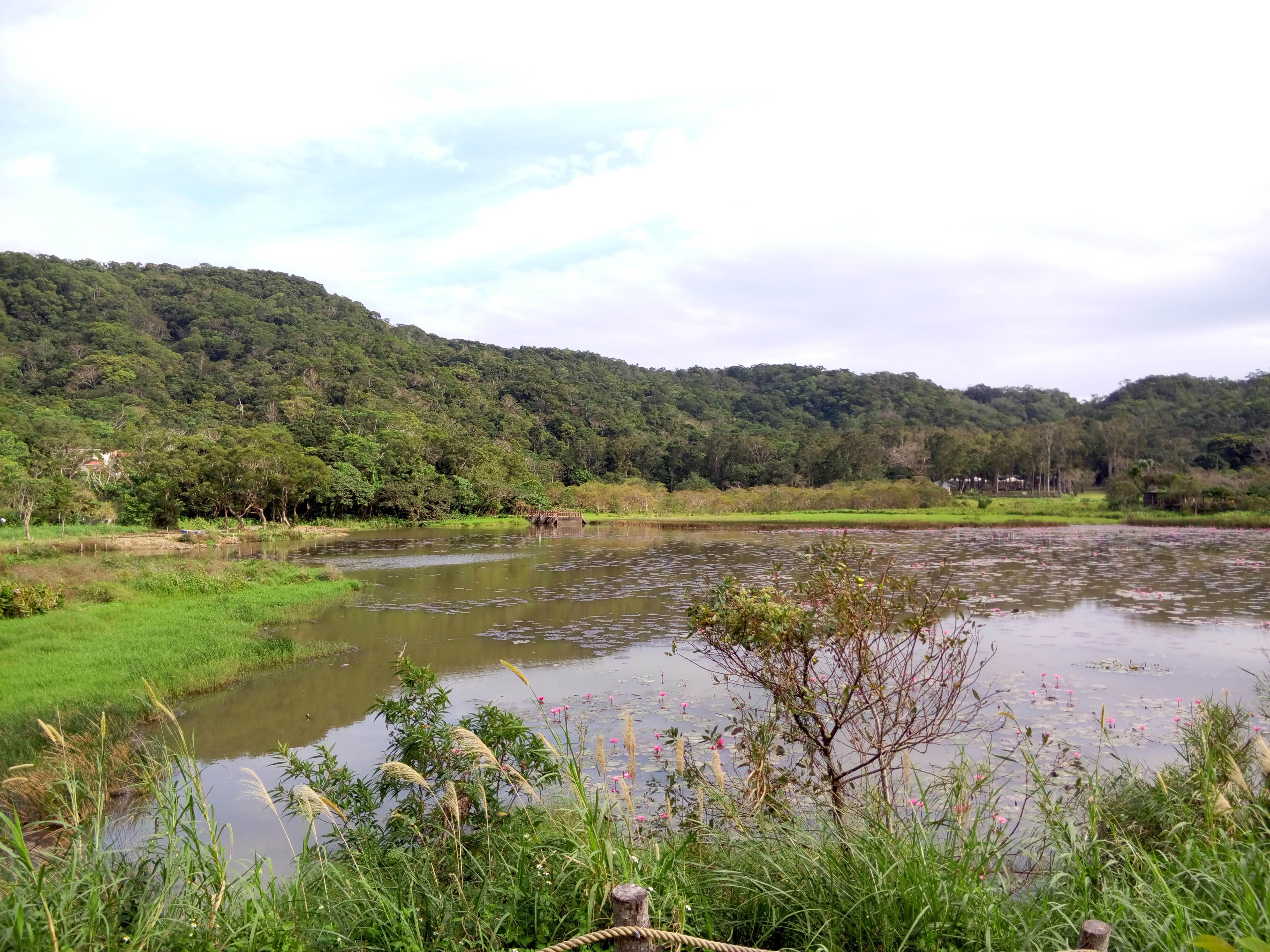 Taiwan Pingtung County Dongyuan Wetland